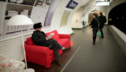 Ikea advertisement in Paris subway.